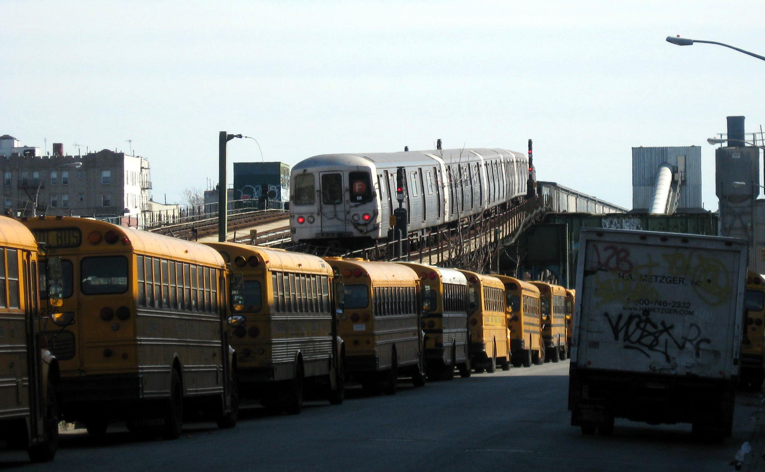 Culver Ramp as seen from west side of McDonald Avenue in late afternoon. Better than my previous shady :Image:F2cortelyou.JPG shot from east.